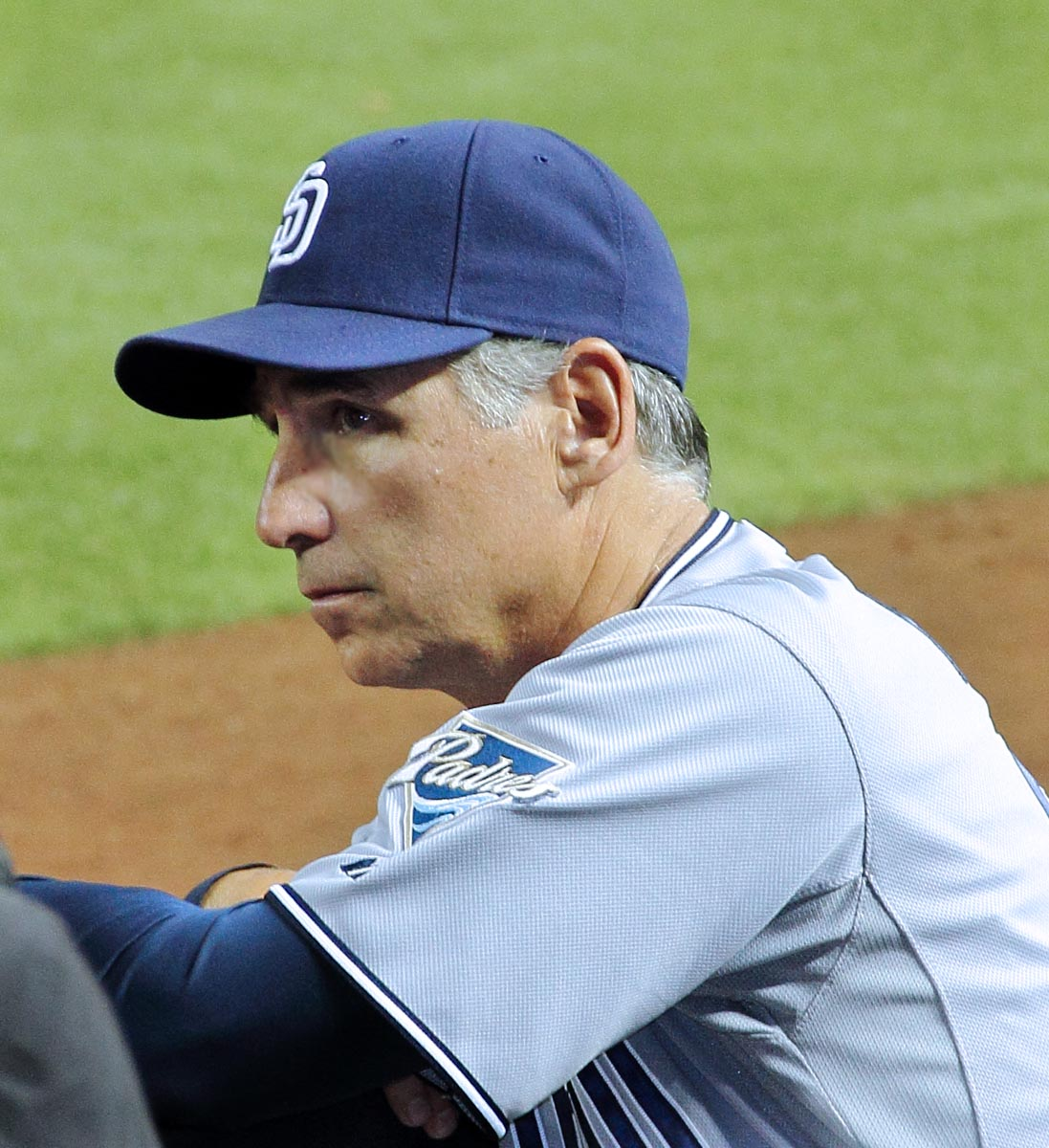 Bud Black, Phoenix, 2011